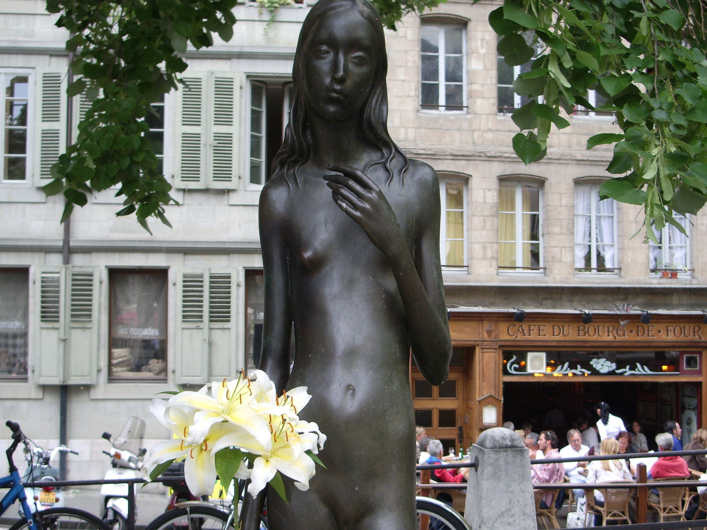 Geneve beauty